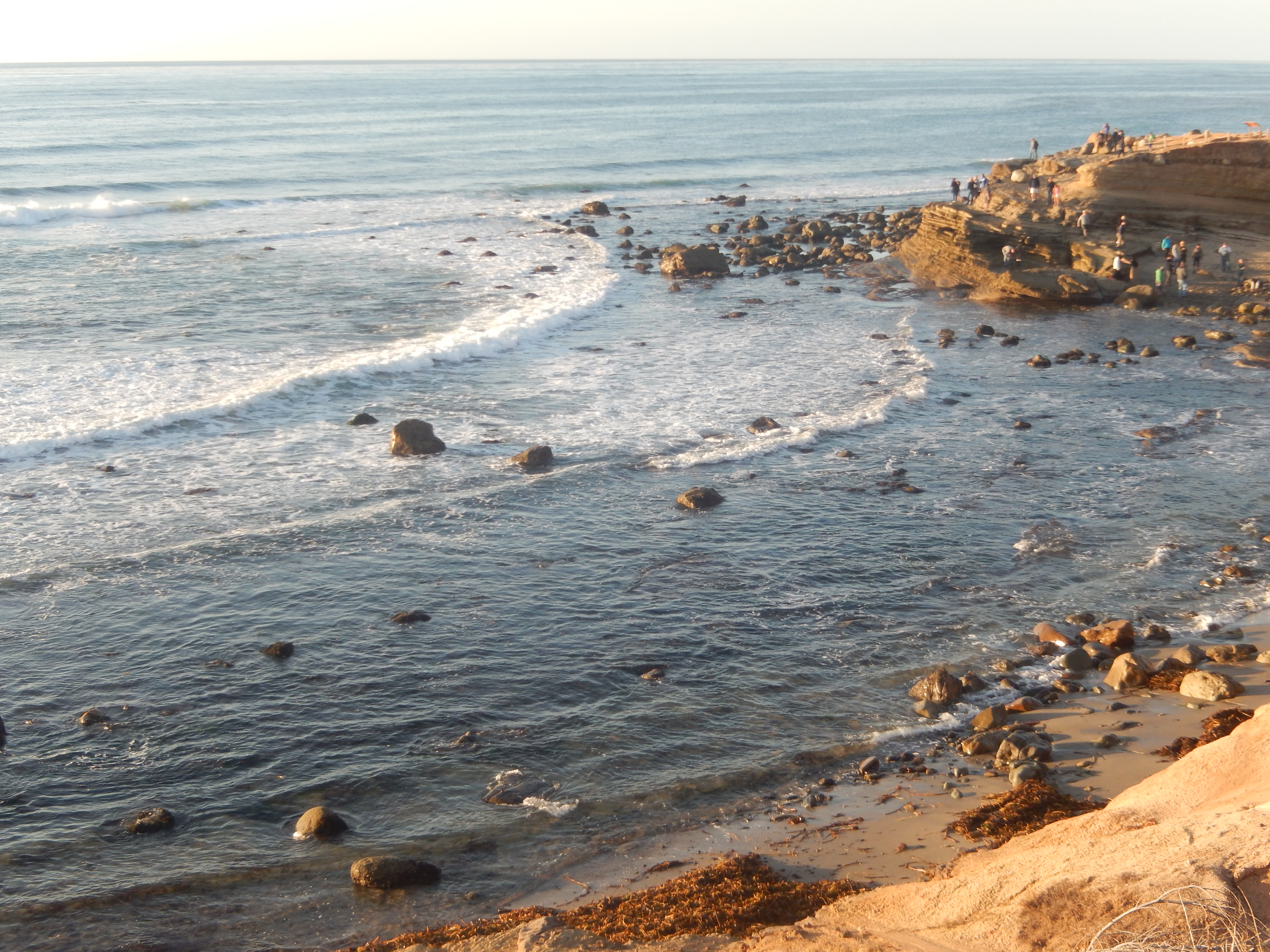 I took photo with Nikon camera of tidal pools at Cabrillo National Monument.